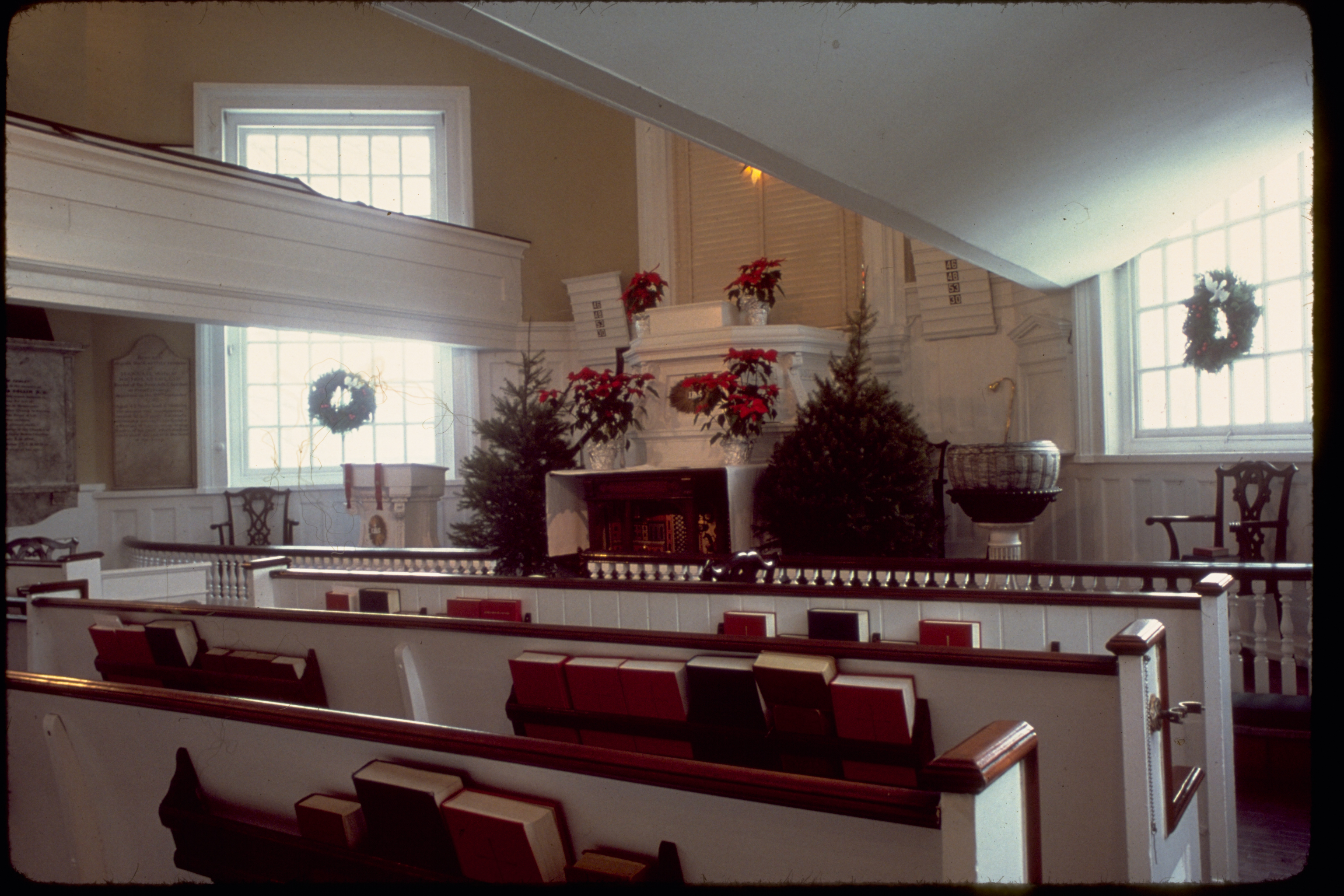 Before William Penn, the Swedes were here, building log homes and a brick church, GLORIA DEI. Imagine the transformation - town becomes city - 13 colonies become a nation – Swedish Lutheran church becomes Episcopalian. Re-discover Patriots and ordinary citizens buried in the cemetery. Enter Pennsylvania’s oldest church and feel 300 years of history welcoming you